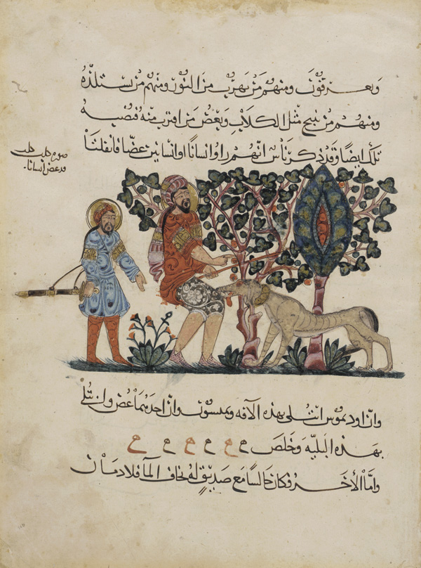 Arabic painting coming from a translation of De materia medica of Dioscorides in arabic made in Baghdad